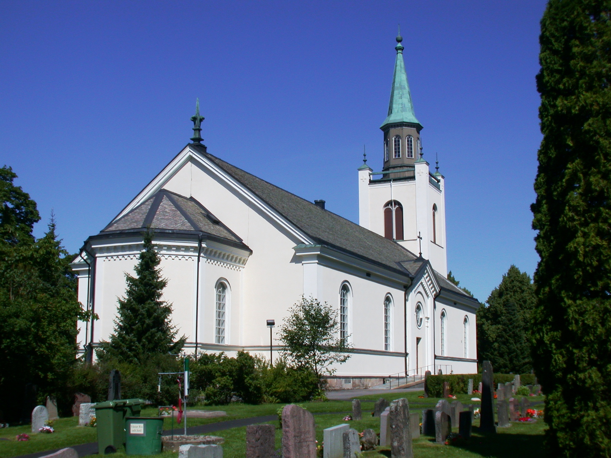 Silbodal church, Årjäng, Sweden